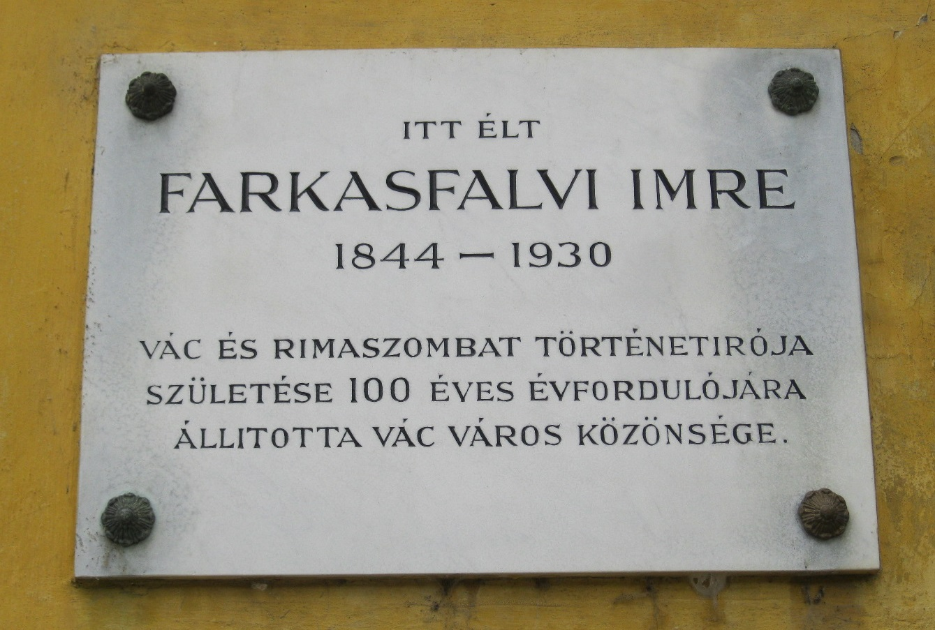 Imre Farkasfalvi (Imre Findura) commemorative plaque in Vác. Báthori Street No 9.